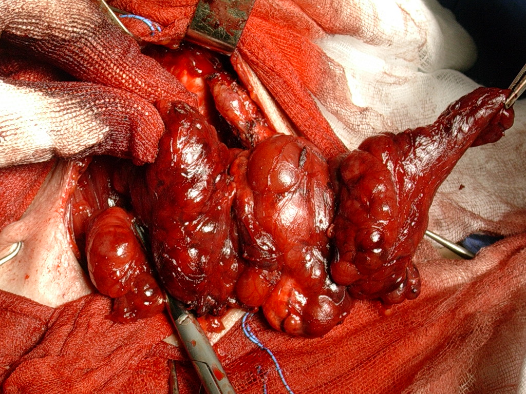 thyroid gland with diffuse nodules (goitre). Intraoperative picture. Policlinic Umberto I of Rome, Sapienza University, Surgical Science Department, complex operative unit of general and reconstructive surgery